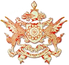 Seal of the government of Sikkim, India